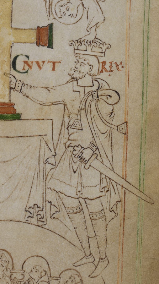 Depiction of Knútr Sveinnsson, King of England (died 1035) as it appears on folio 6r of British Library Stowe MS 944.